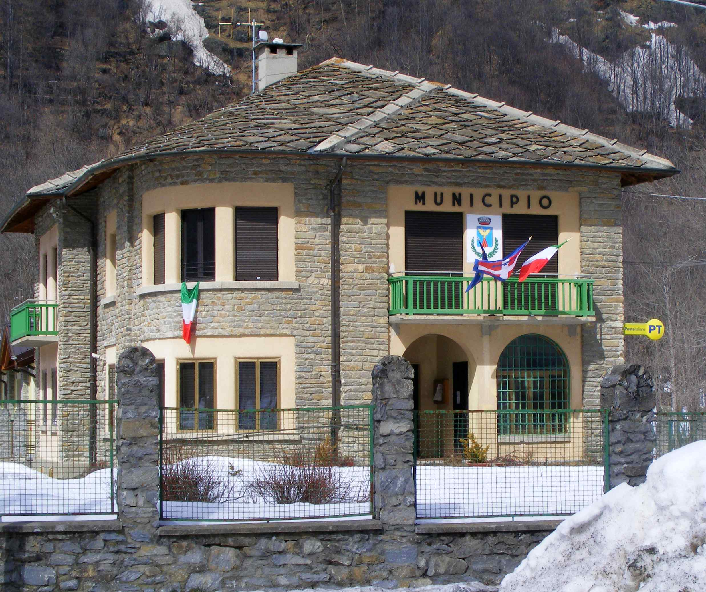 Usseglio (TO, Italy): town hall